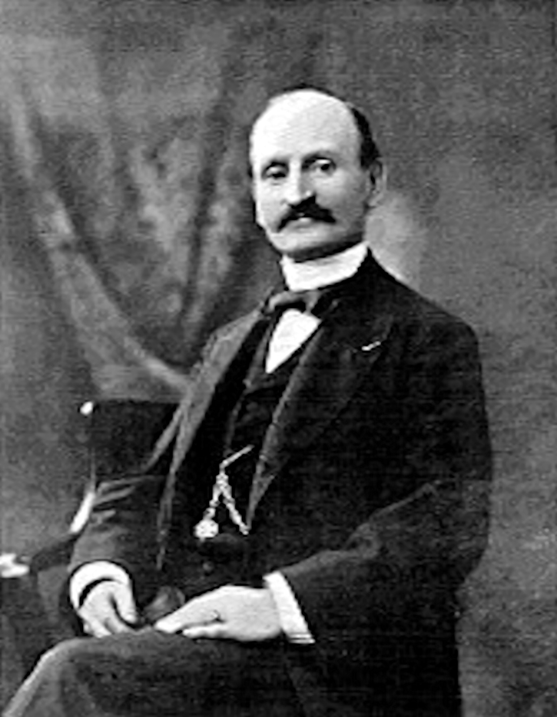 Medal of Honor winner